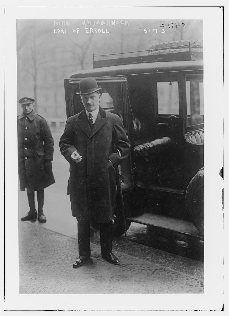 Victor Hay, 21st Earl of Erroll in 1920